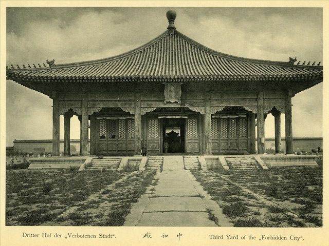 old photo from China 1900-1903, see the file's name for detail.